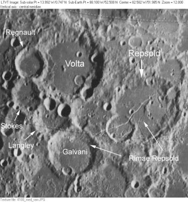 LO-IV-188M